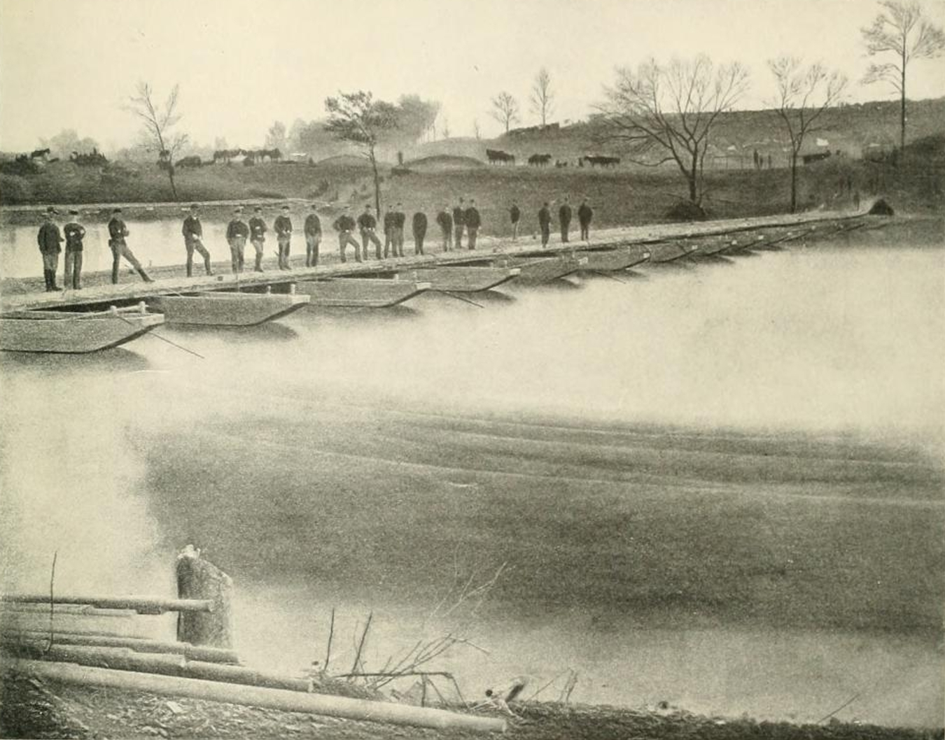 Union engineers have just completed the pontoon bridge at Franklin's Crossing on April 29, 1863 just prior to the Battle of Chancellorsville